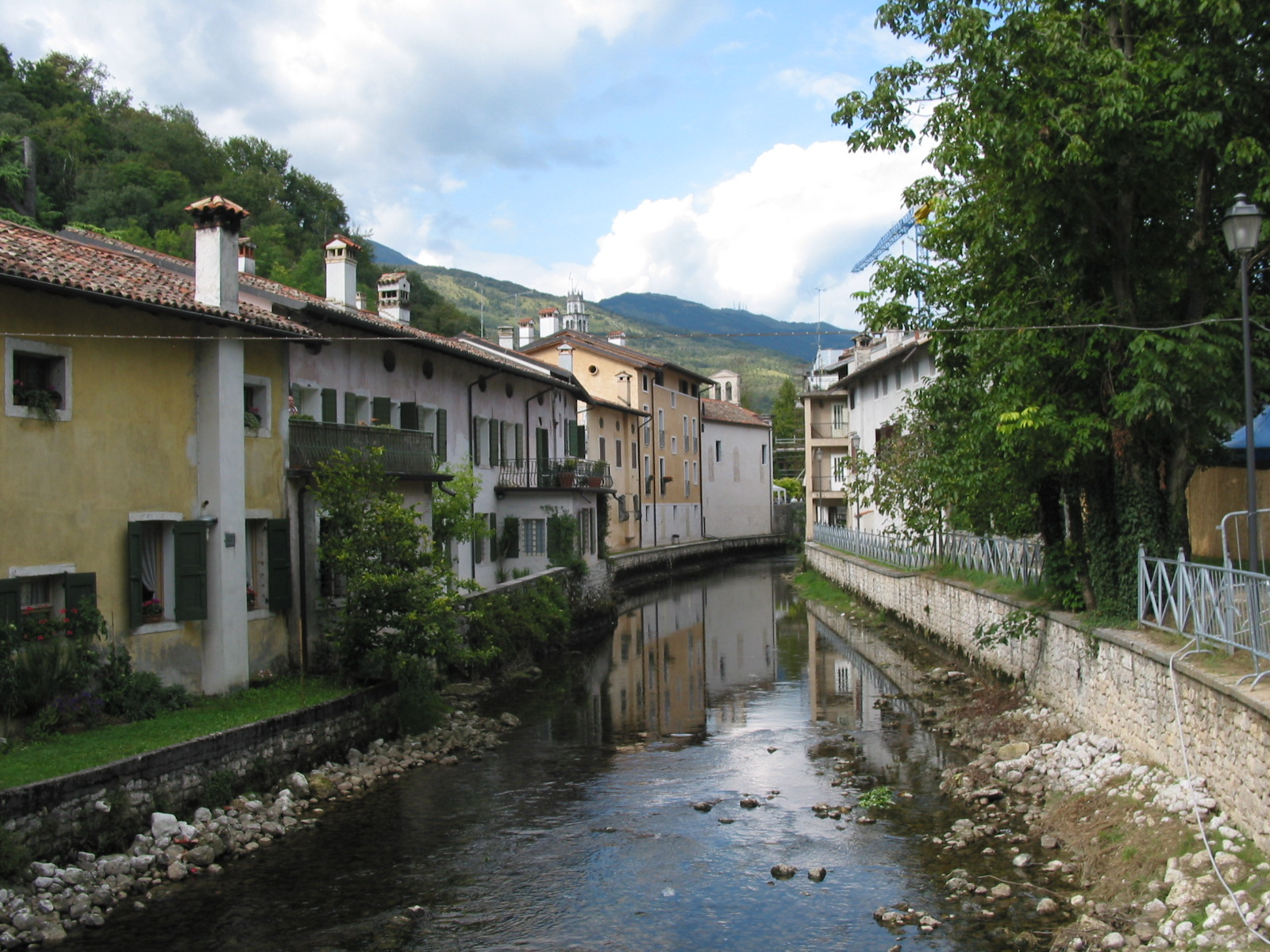 Livenza river in Polcenigo city centre, Friuli-Venezia Giulia, Italy